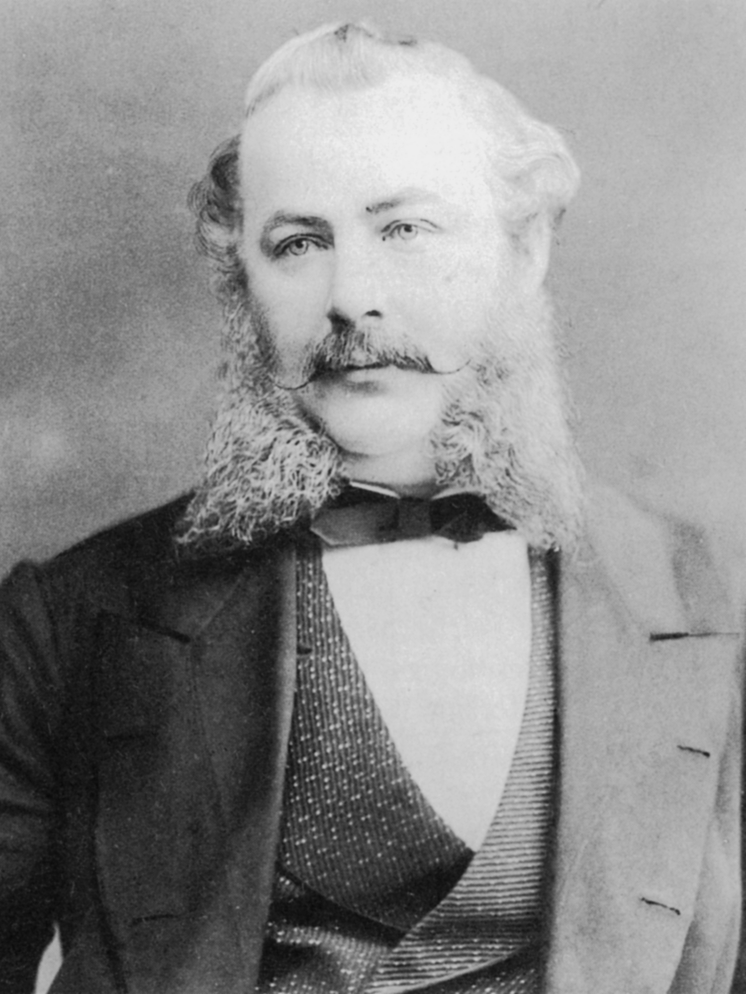 Robert Francis Fairlie, inventor of the articulated Fairlie locomotives